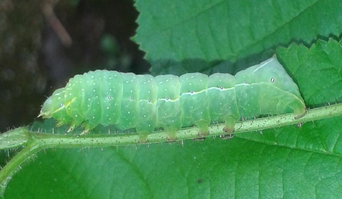 Amphipyra pyramidea caterpillar, Frankfurt am Main, Germany